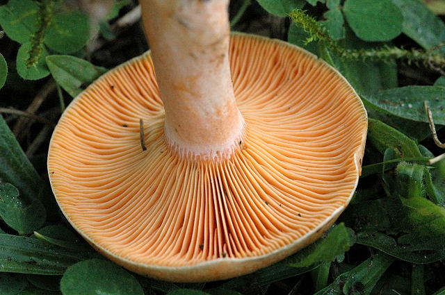 Lactarius deterrimus from Commanster, Belgium. The determination of the species shown in this picture has been verified.